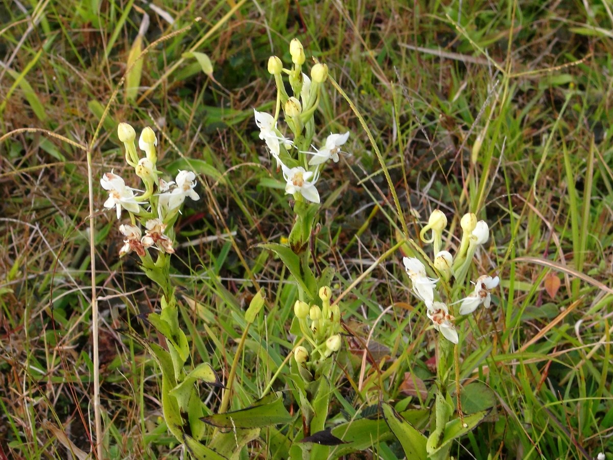 Habenaria monorrhiza. - Costa Rica, Santa Elena (cloud forest region), in meadow near lodge.